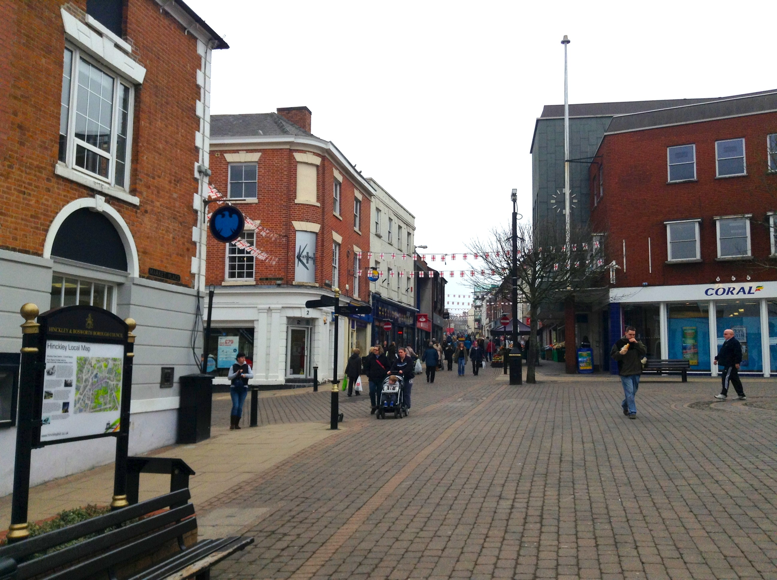 A photograph of Hinckley town centre, showing part of Market Place and Castle Street on a weekday morning. Taken on Tuesday 11th April, 2013.